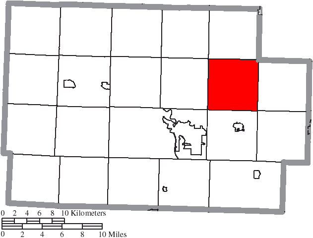 Map of the municipal and township boundaries of Coshocton County, Ohio, United States, as of the 2000 census, with the location of White Eyes Township highlighted. Township borders are shown only in unincorporated areas in order to differentiate incorporated and unincorporated areas more clearly.